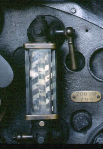 Crop of "Good gauge full of water. Brass box is a lubricator. You would not want anything to seize up at 80 mph."